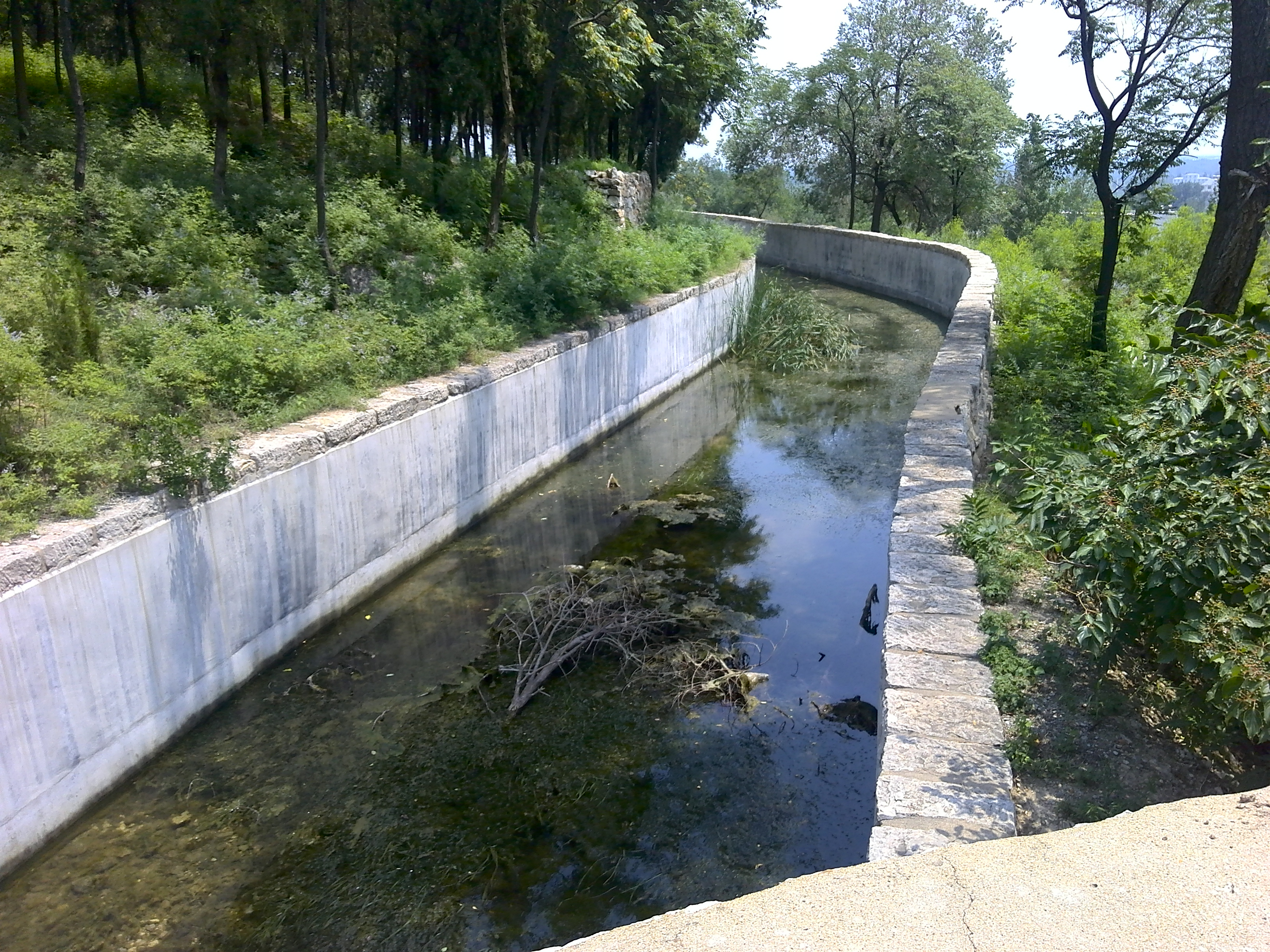 Qingfeng Hill